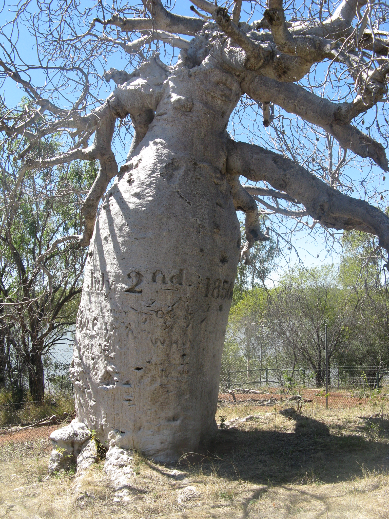 Gregory Tree, a boab tree, near Victoria Highway, Northern Territory/Australia